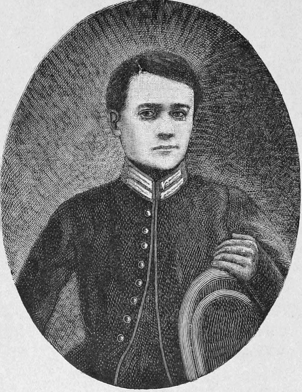 Russian novelist Grigory Petrovich Danilevsky in 1844